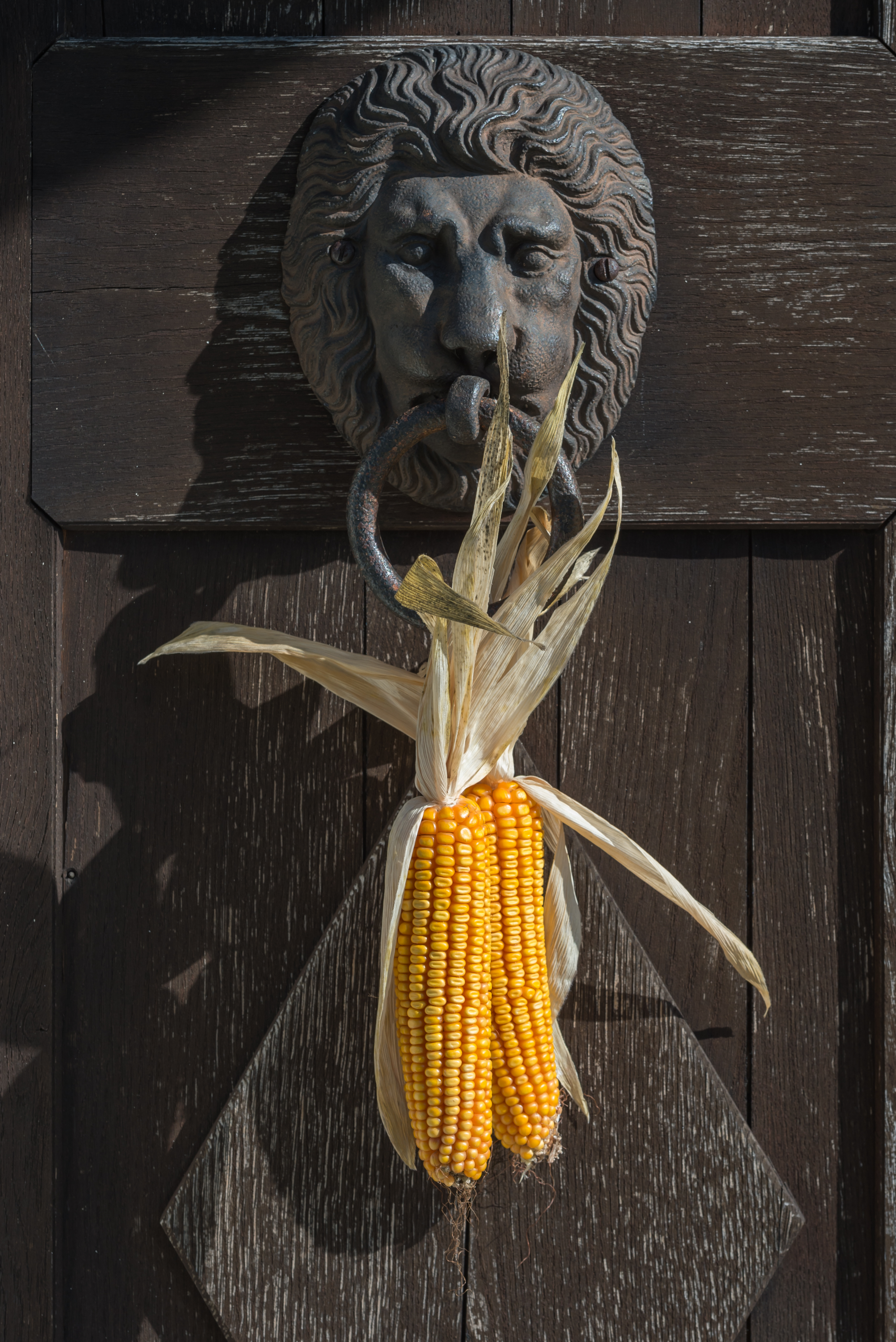 Door handle with maize husk at the church portal of the subsidiary church (13th century) in Sankt Peter am Bichl, 14th district Woelfnitz, municipality Klagenfurt am Wörthersee, Carinthia, Austria, EU